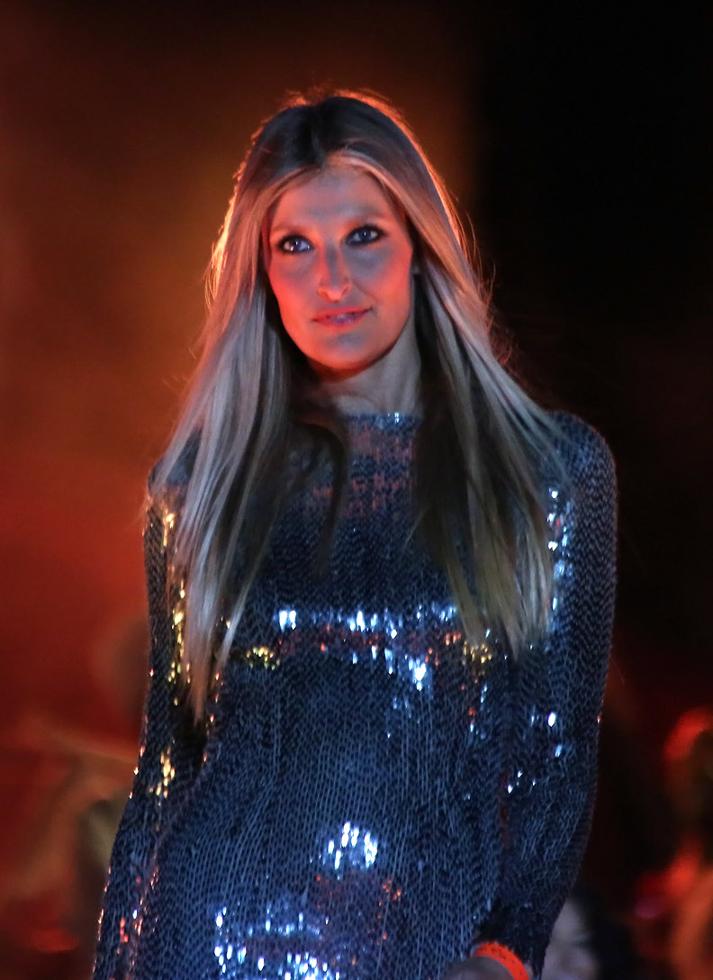 Tereza Maxová, fashion show by Roberto Cavalli, opening of Life Ball 2013 at the city hall of Vienna, Vienna, Austria.